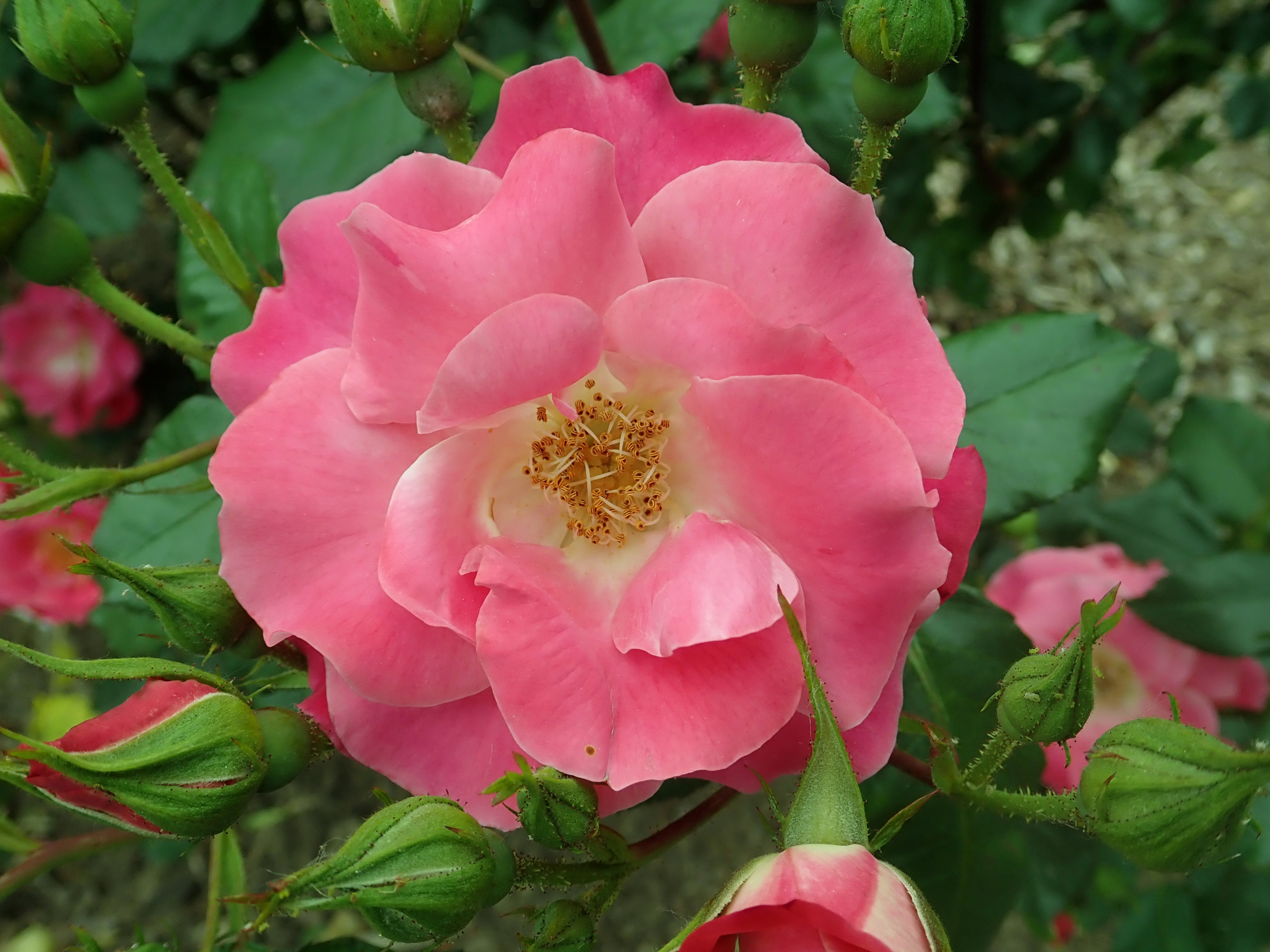 Rosa ‘Hella Brumme’ (Dr. Schmadlak, 1981), Europa-Rosarium Sangerhausen.